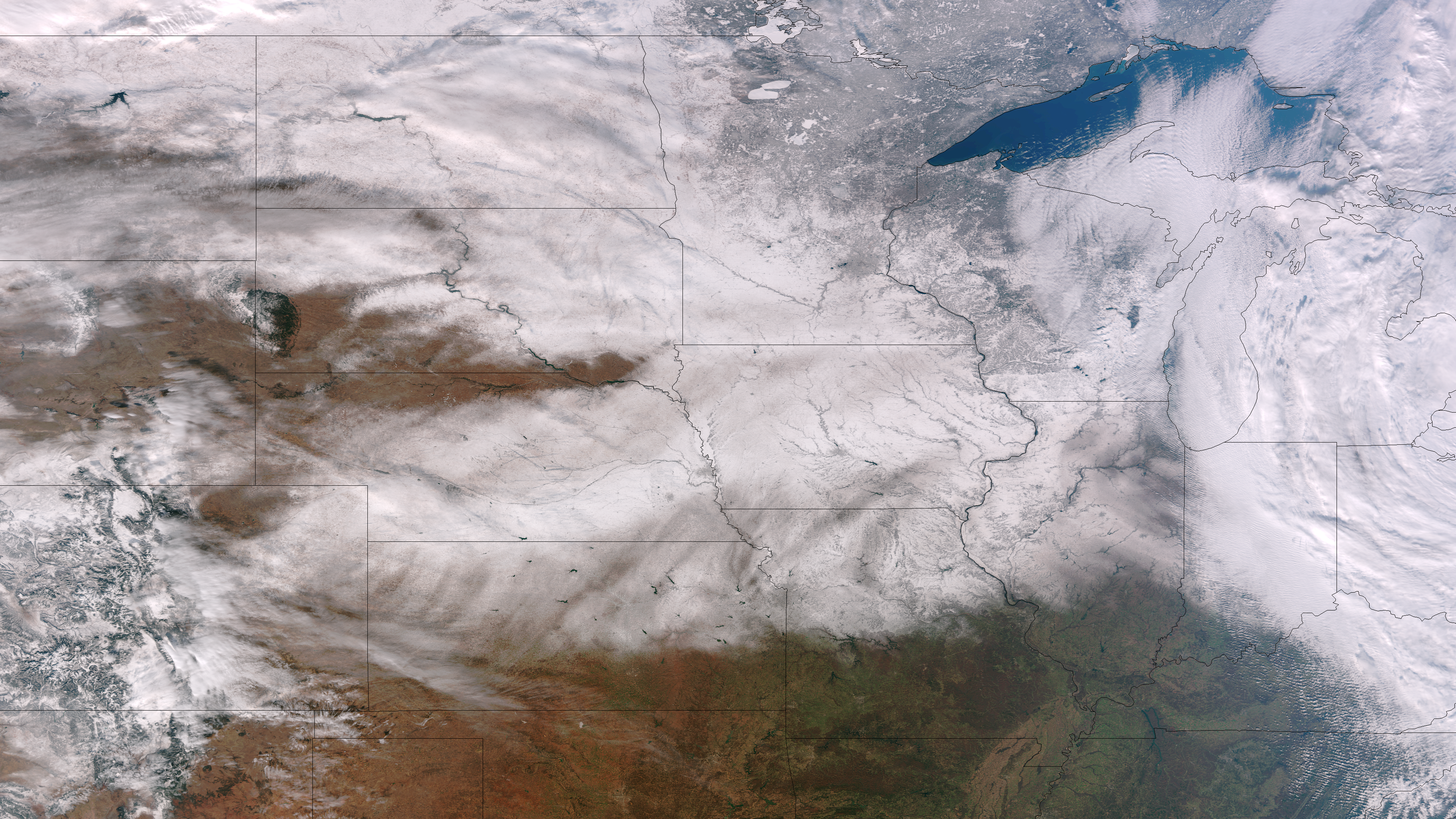 From NNVL: "The midwest and Great Plains states are digging out from heavy snow that has fallen over the past few days. This image from the NASA/NOAA Suomi NPP satellite's VIIRS instrument taken around 1920Z on December 21, 2012 shows snow on the ground as clear skies trail in the wake of the winter storm now moving east into the Great Lakes and Central Appalachians regions."